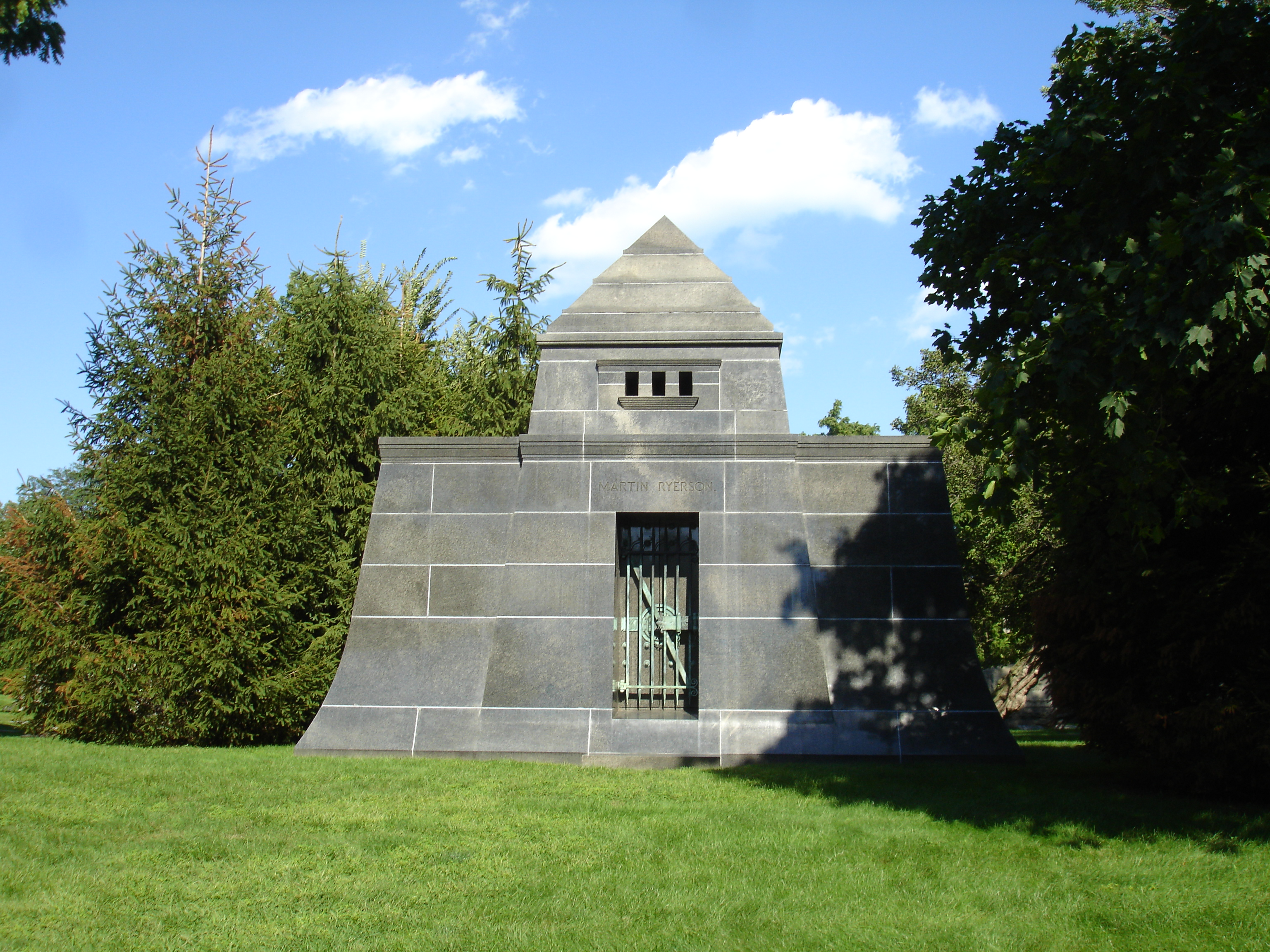 The Louis Sullivan designed Martin Ryerson Tomb (1889). This Egyptian Revival style mausoleum is located in Chicago's Graceland Cemetery.